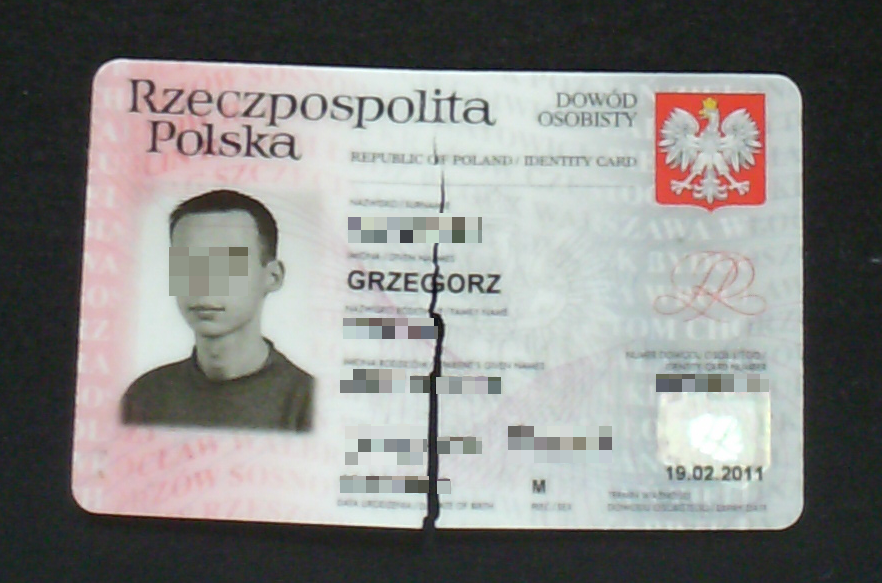 photo of broken polish id